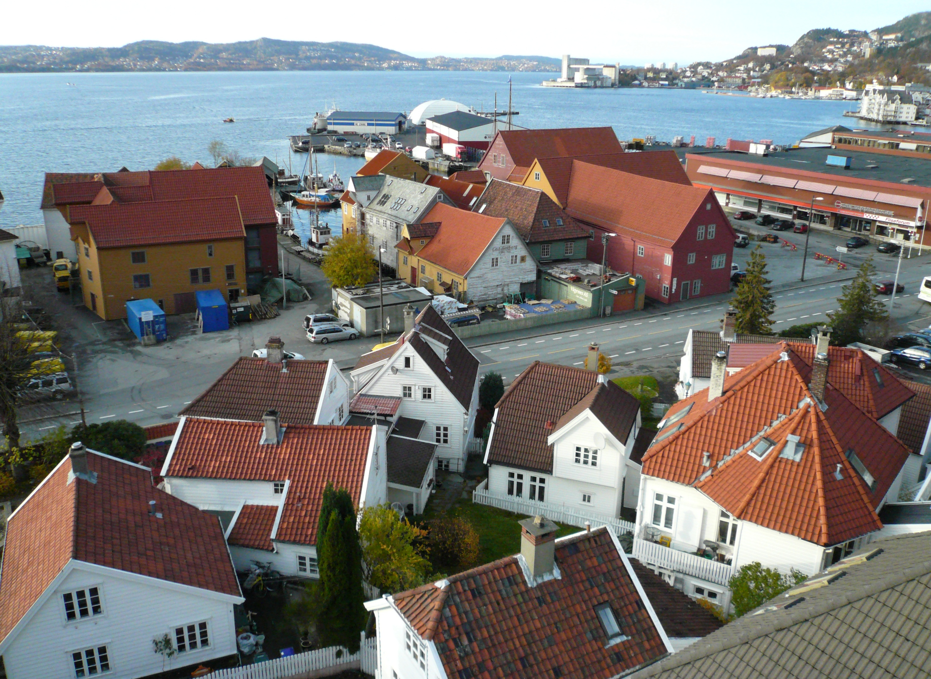 Sandviksboder 15-24 and Fjæregrenden, Sandviken, Bergen, Norway